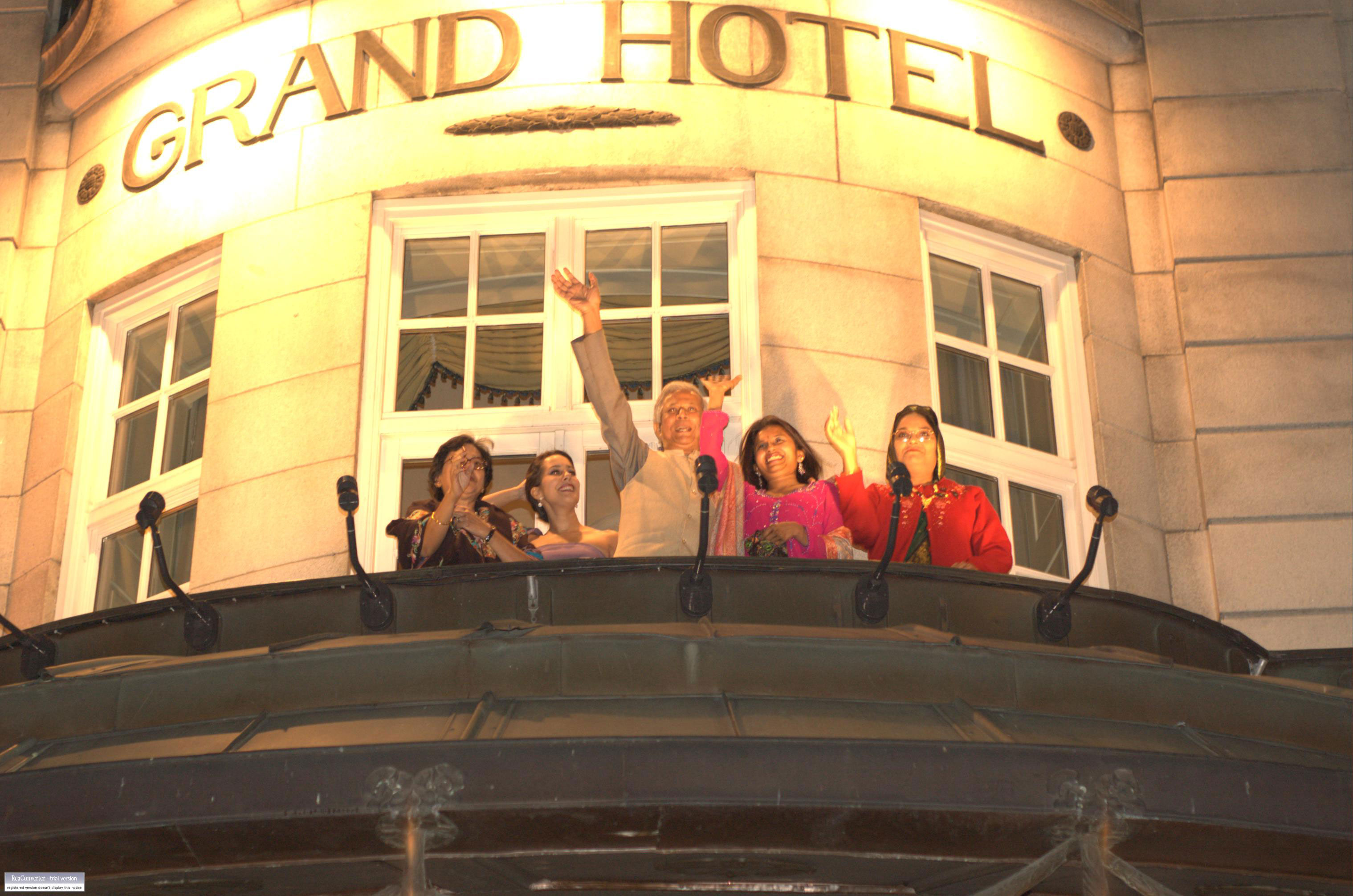 Muhammad Yunus and family at the Grand Hotel react to the public after receipt of the Nobel Peace Prize